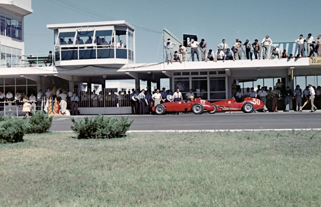 The Lancia Ferraris of Luigi Musso (#12, Lancia D50) and José Froilán González (#30, Lancia D50 / Ferrari 801) at the 1957 Argentine GP Photo by Carlos Alberto Navarro.